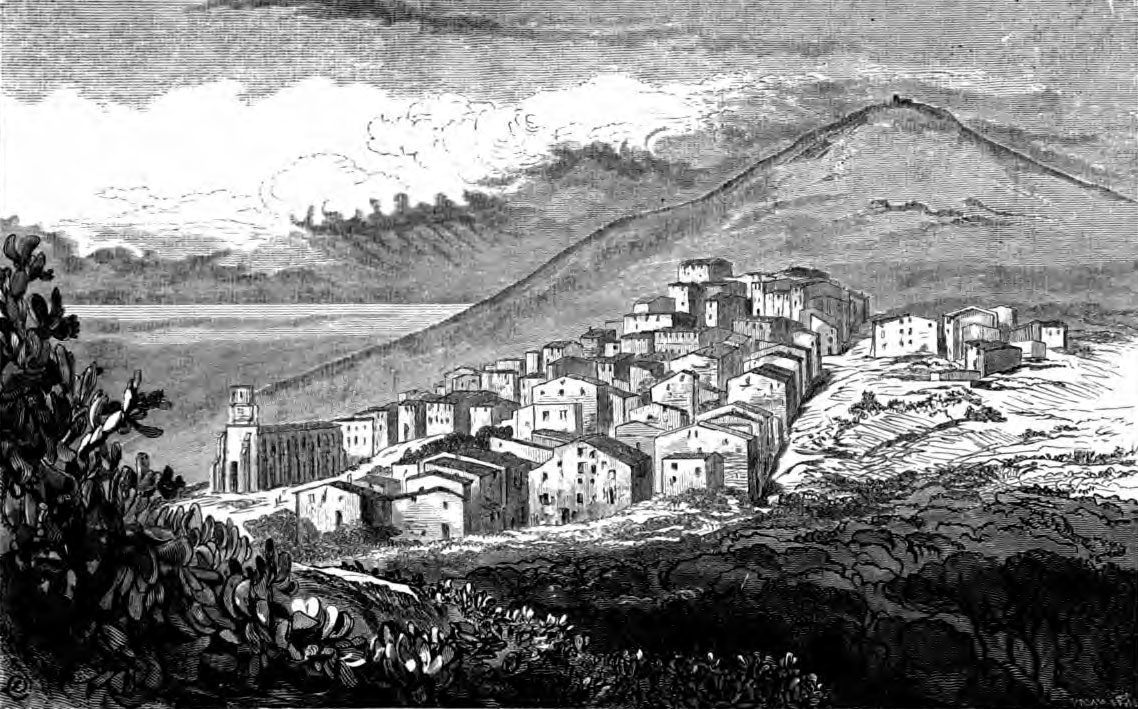 View of the village of Cargèse in Corsica. Looking to the west. The unfinished Greek church is on the left hand side. Picture sketched in 1868.